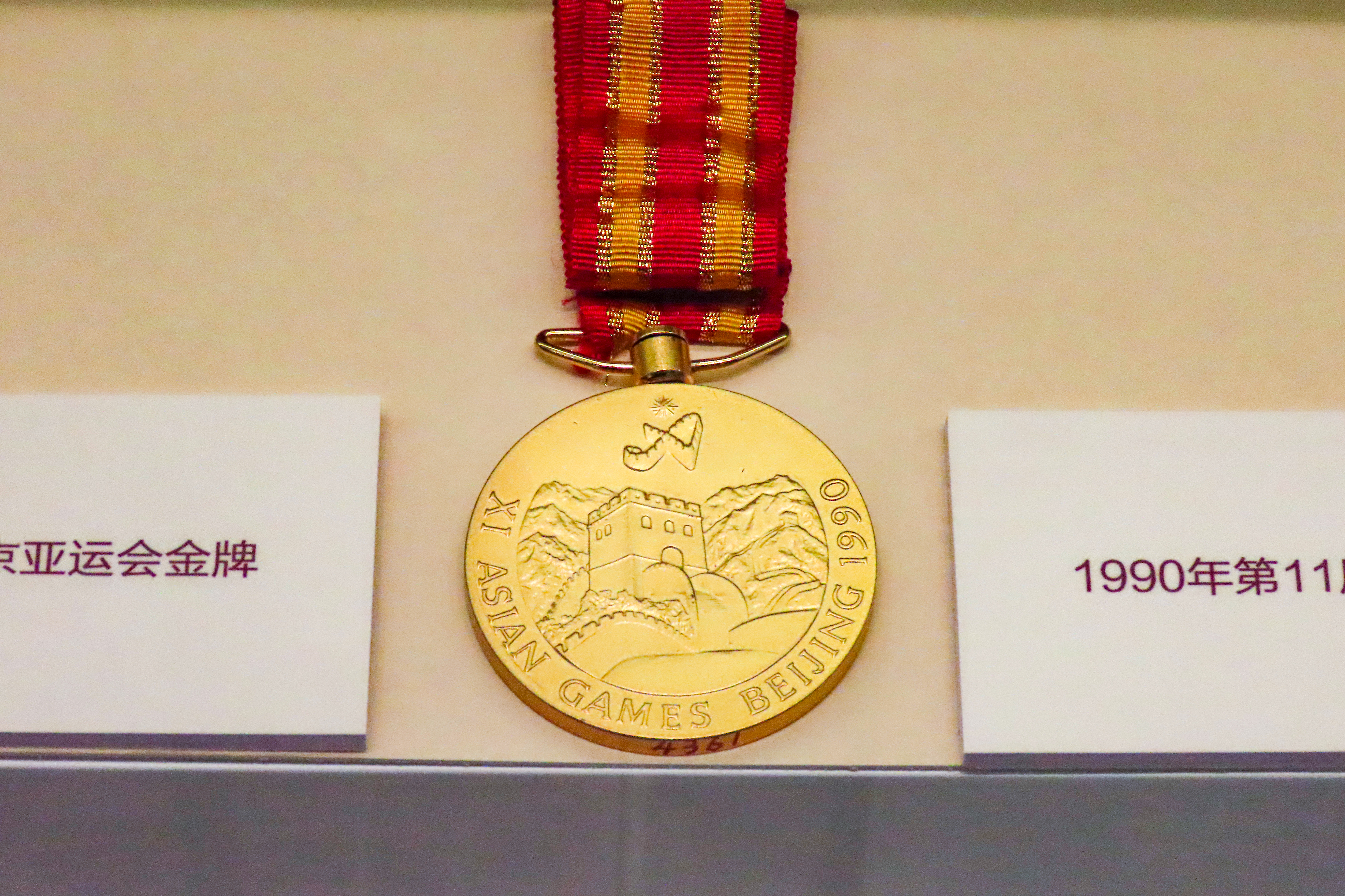 11th Asian games in the start of 1990s...